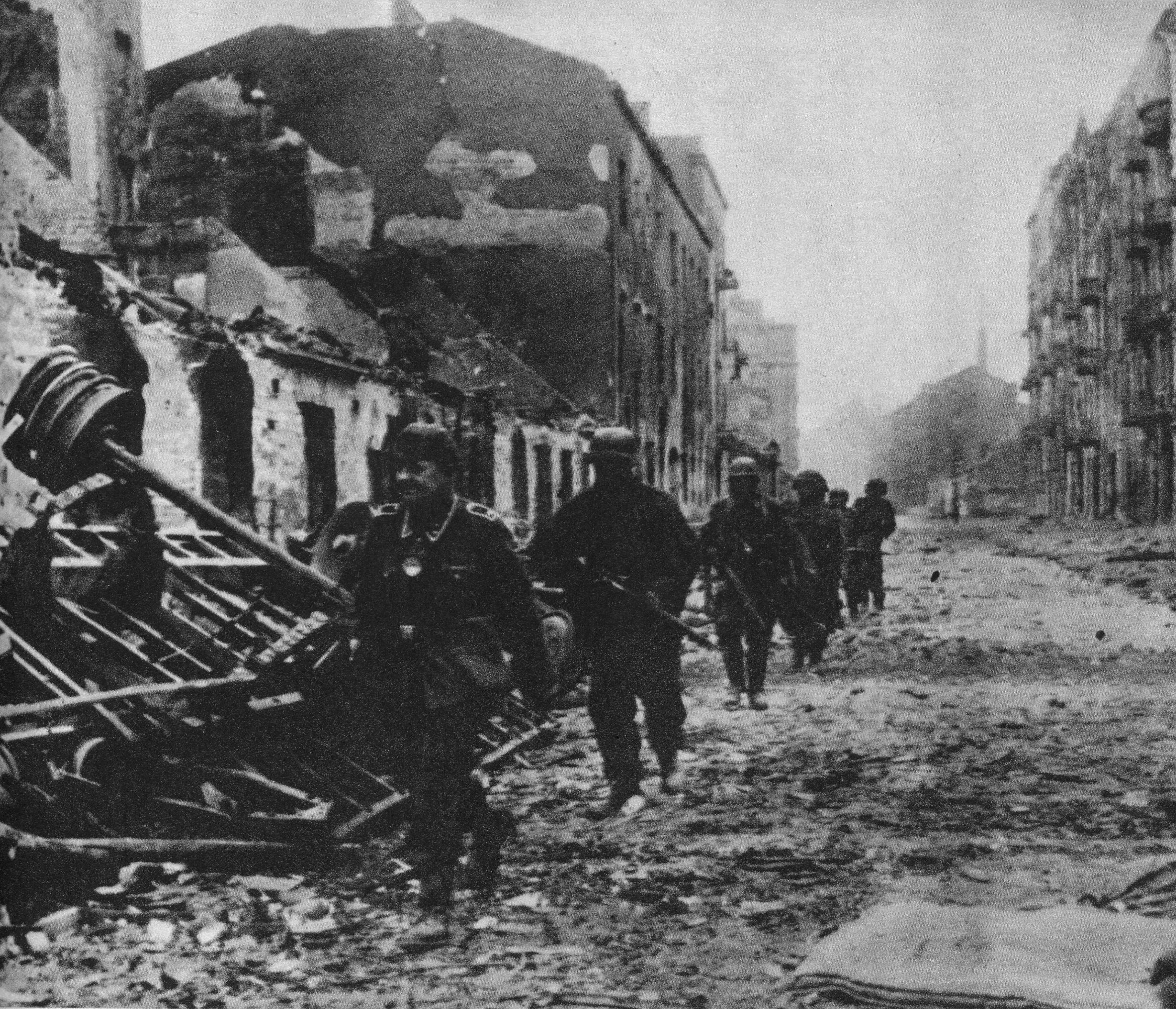 Warsaw Uprising: German soldiers at Wronia street.